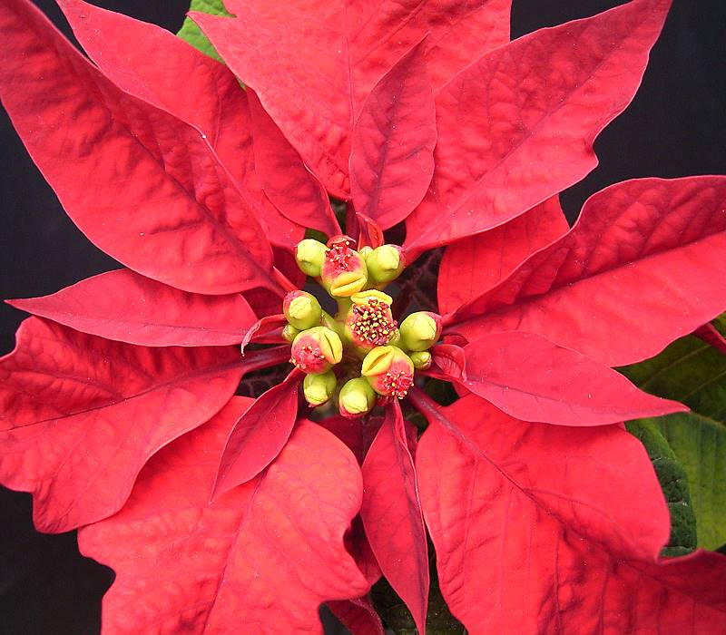 The Euphorbia pulcherrima is from Mexico